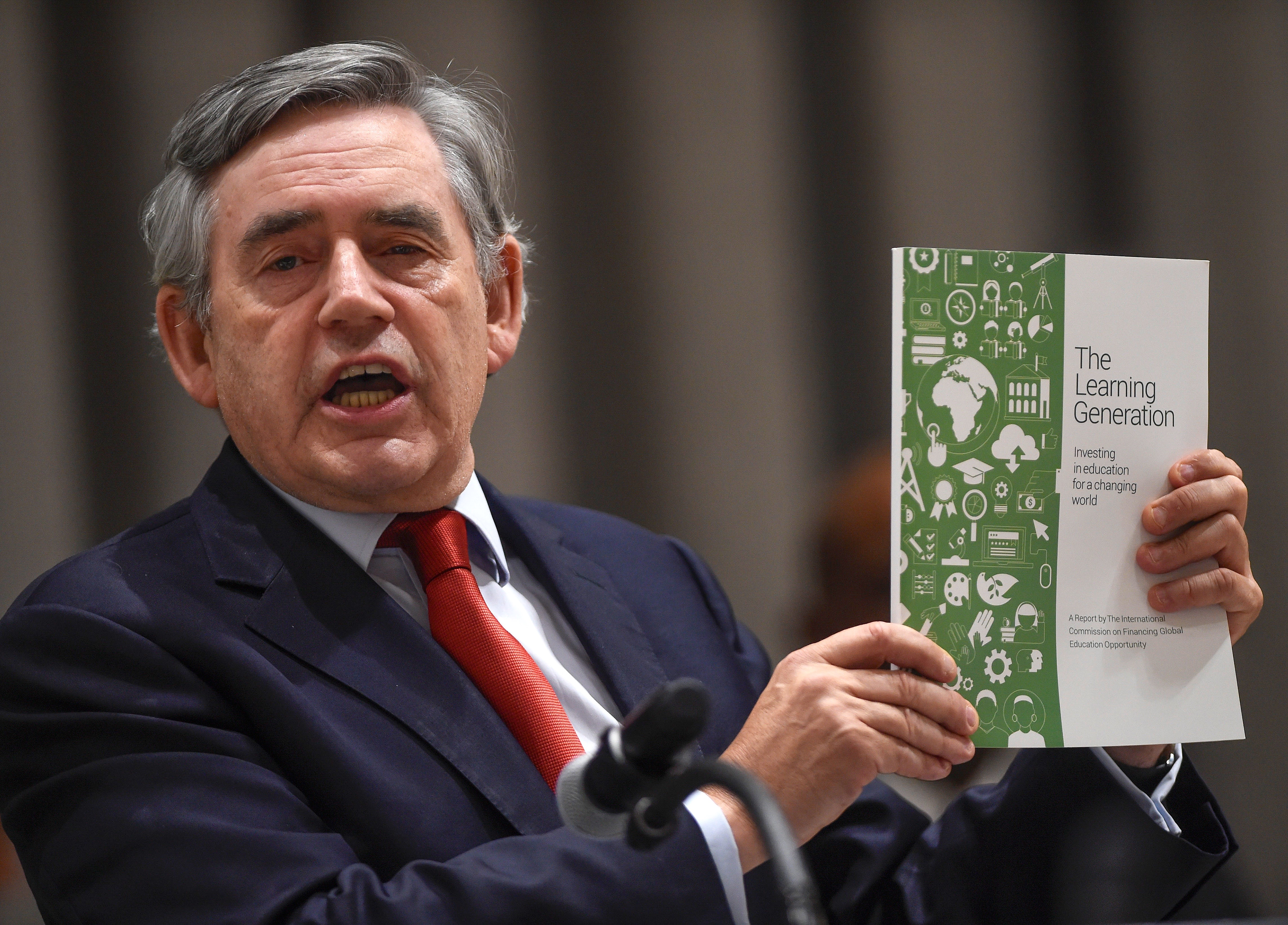 Gordon Brown presenting the LearningGeneration report at the United Nations